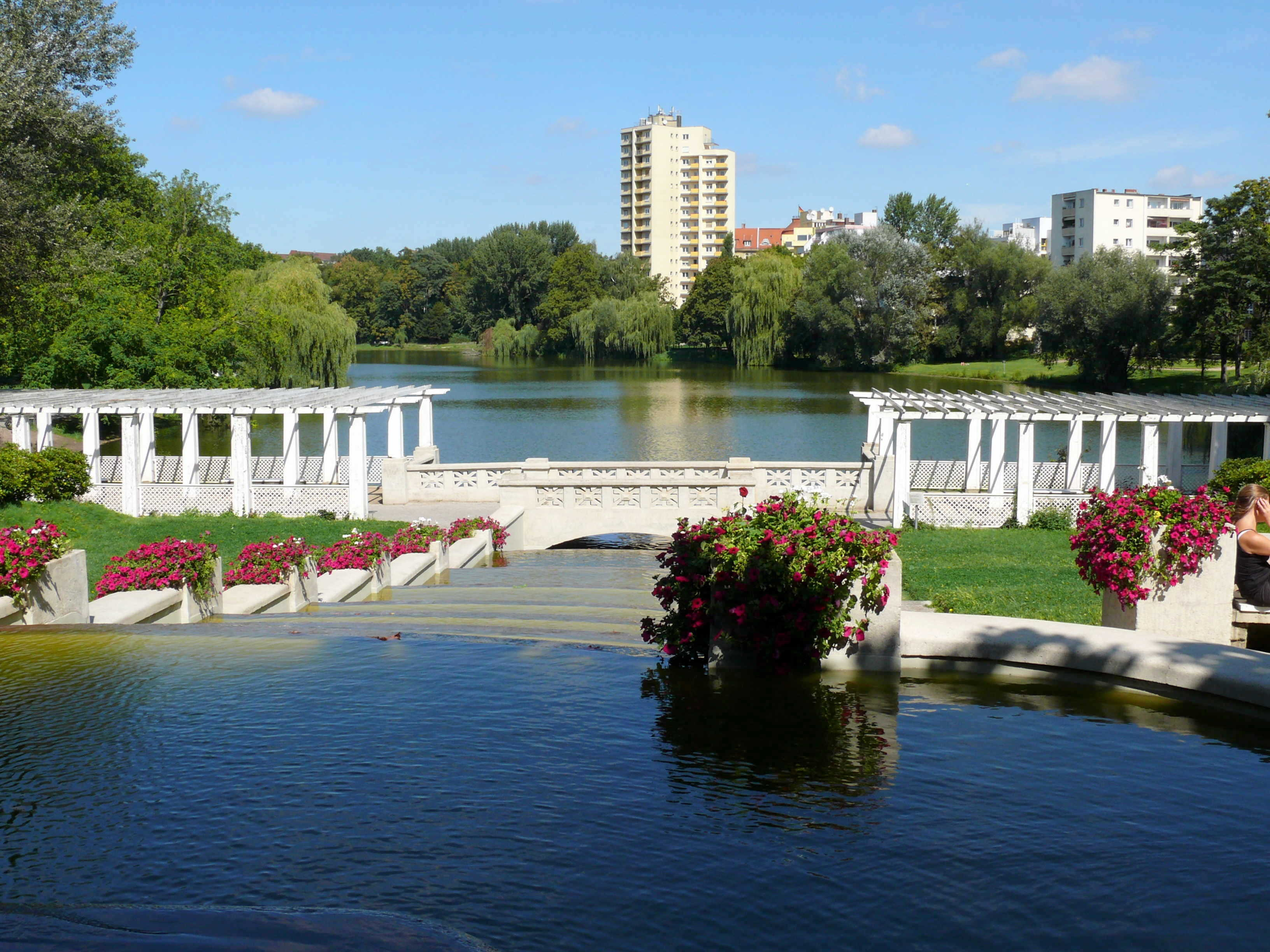 Berlin-Charlottenburg Lietzenseepark